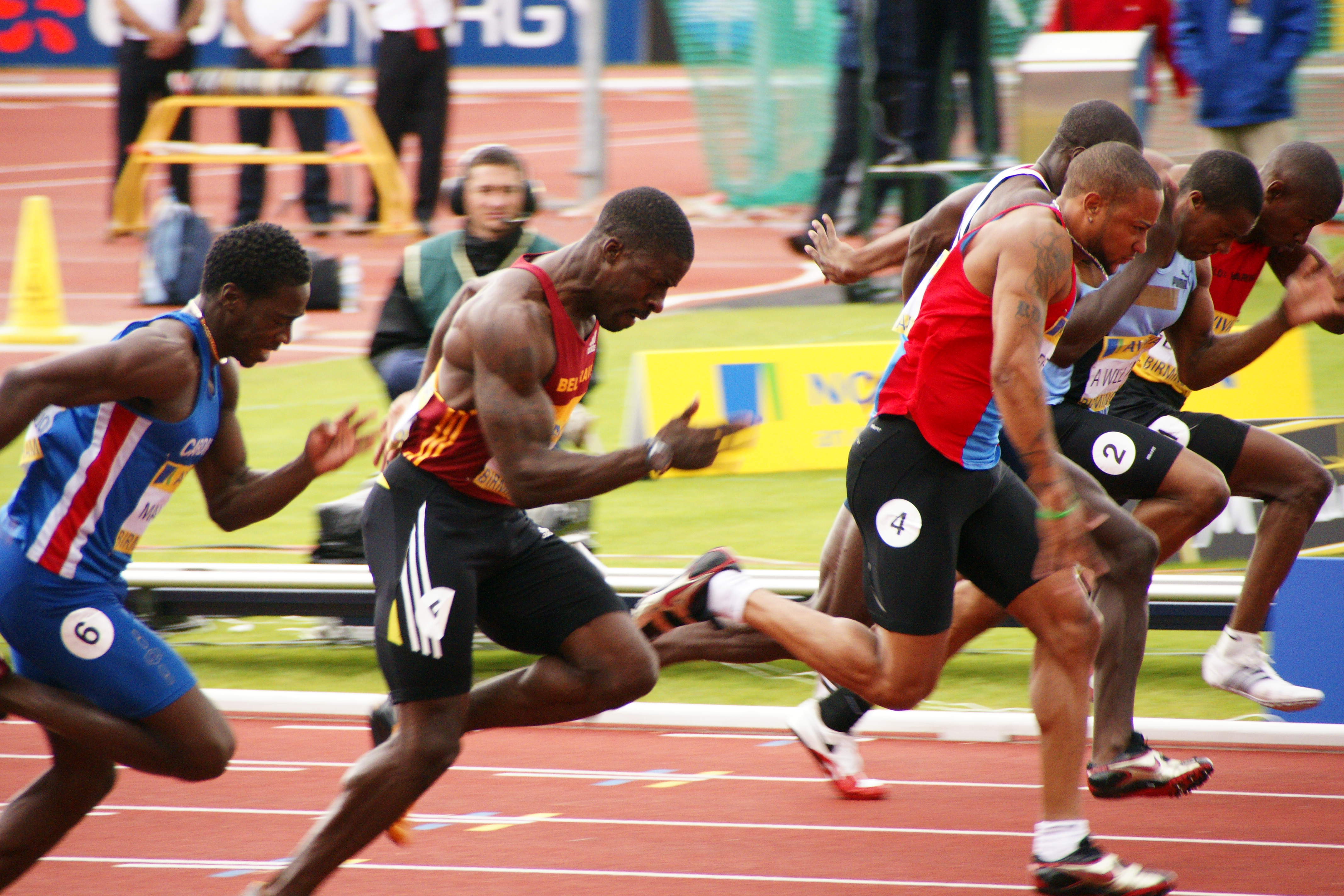 Christian Malcolm, Dwain Chambers, Rikki Fifton competing in the 100 metres at Alexander Stadium, Birmingham for the UK Olympic Trails 2008